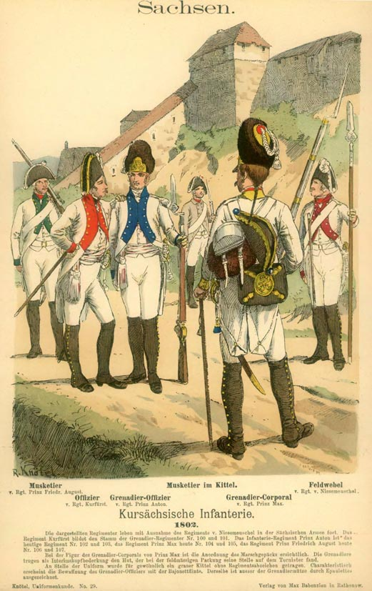 Sachsen. Kursächsische Infanterie. 1807